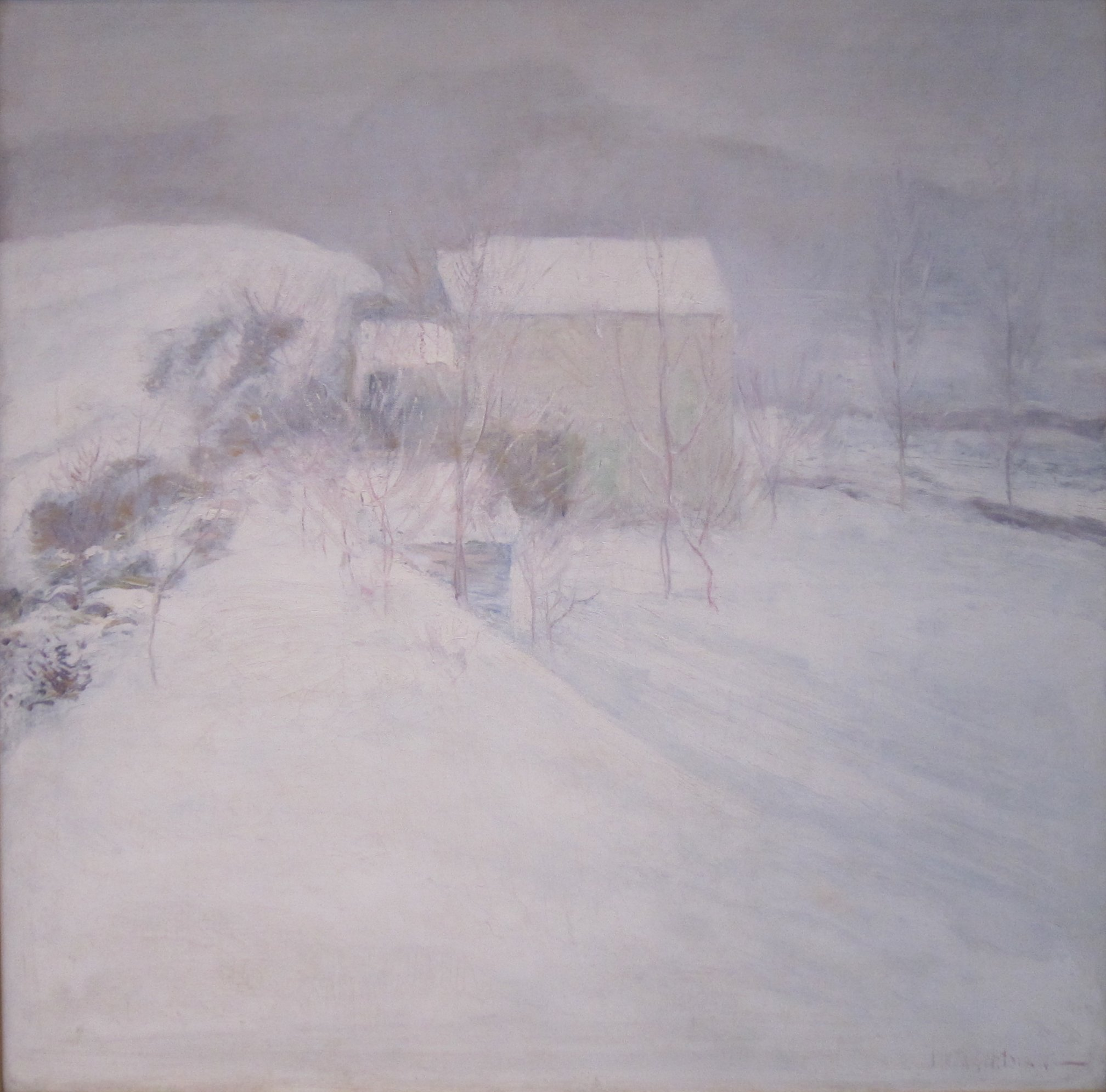 Snow, oil on canvas painting by John Henry Twachtman, c. 1895-6, Pennsylvania Academy of the Fine Arts